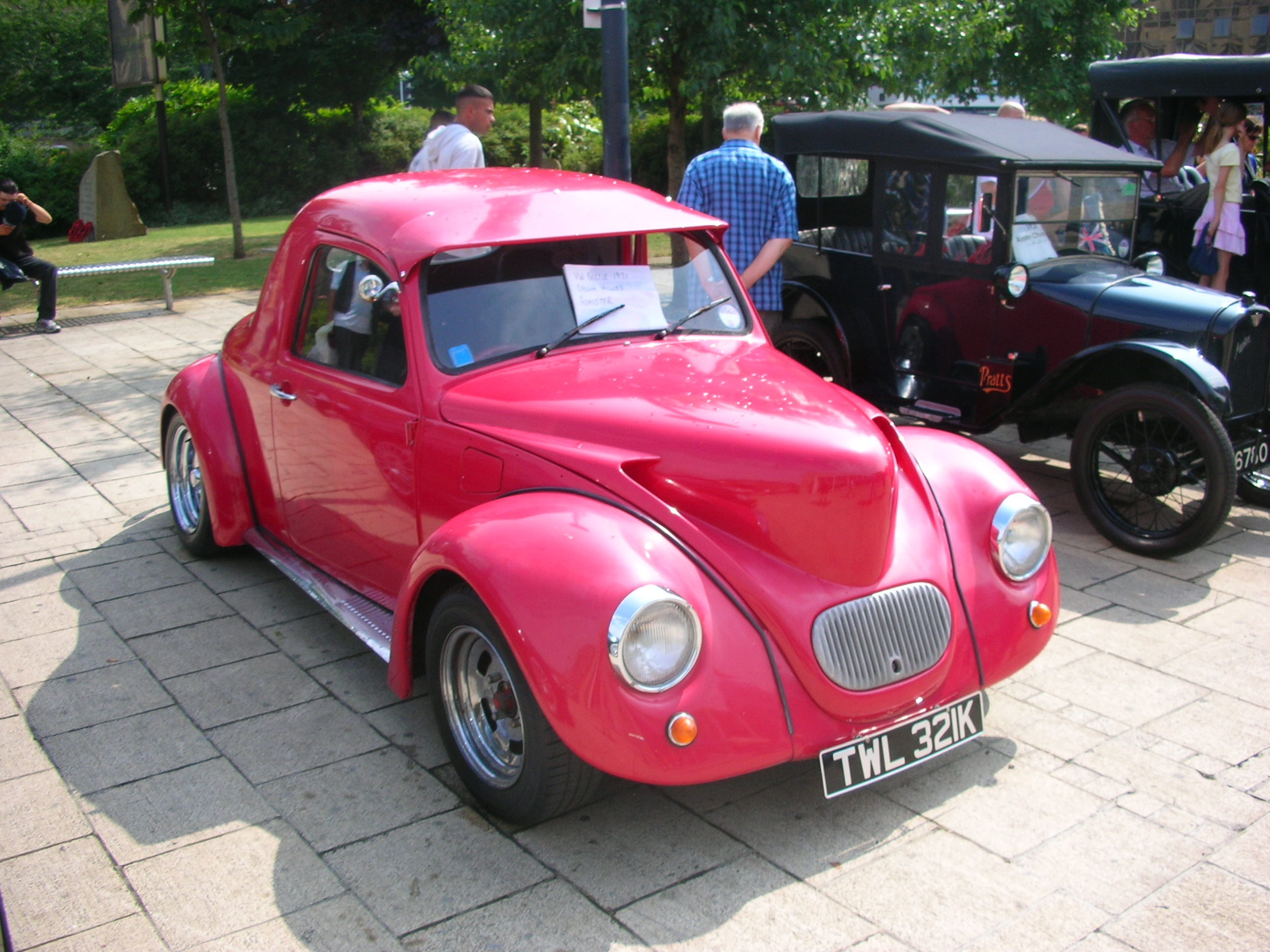 1971 VW Beetle / Willys Coupe Replica / Model: Super Coupé oder Wizard of Rods Super Coupé